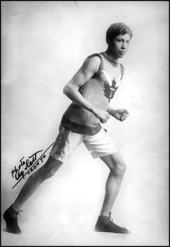 Thomas Longboat (Cogwagee), an Onondaga distance runner